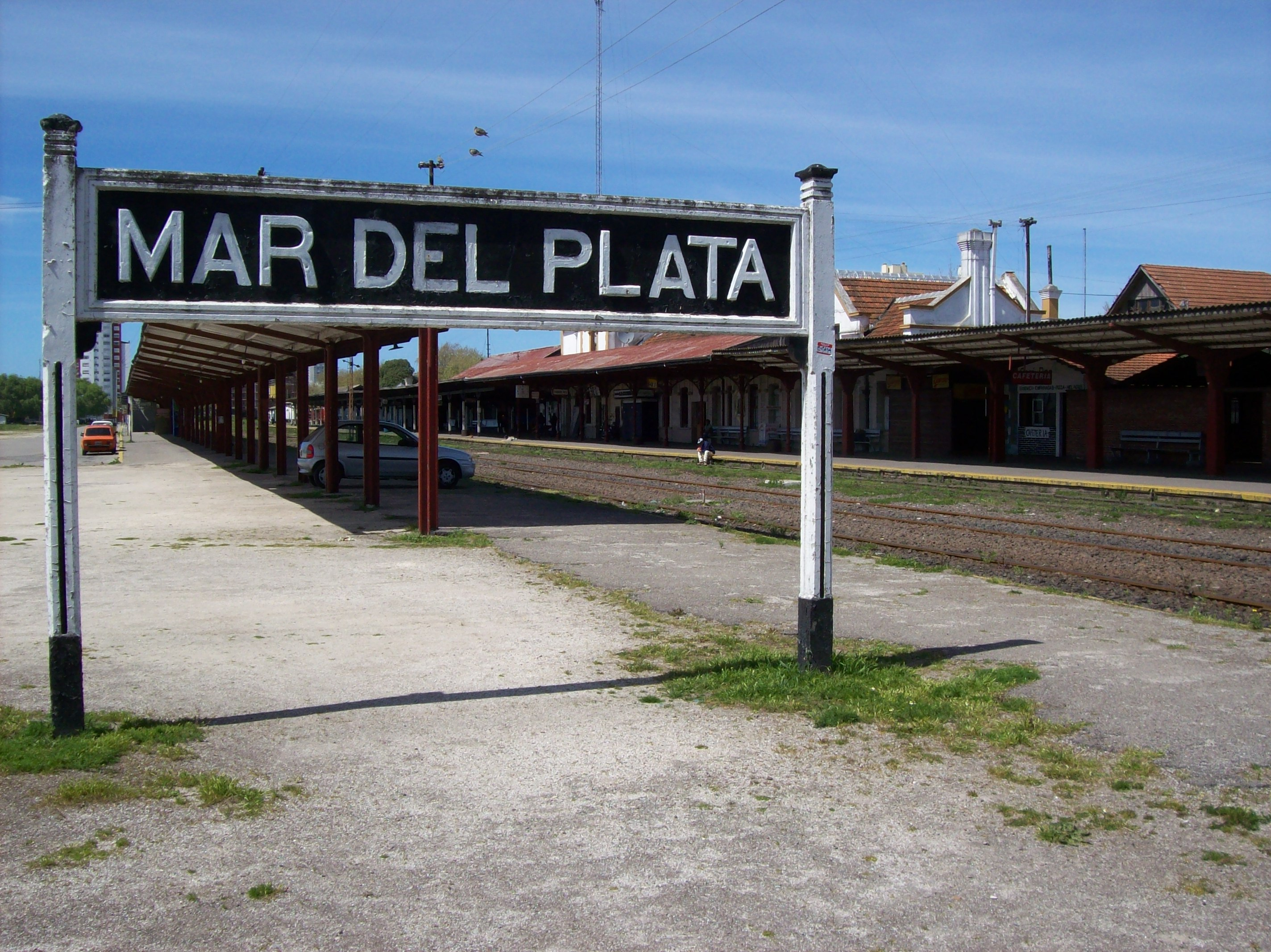 Mar del Plata train station, Buenos Aires Province, Argentina.